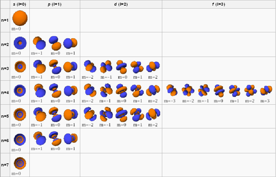 Table of atomic orbitals